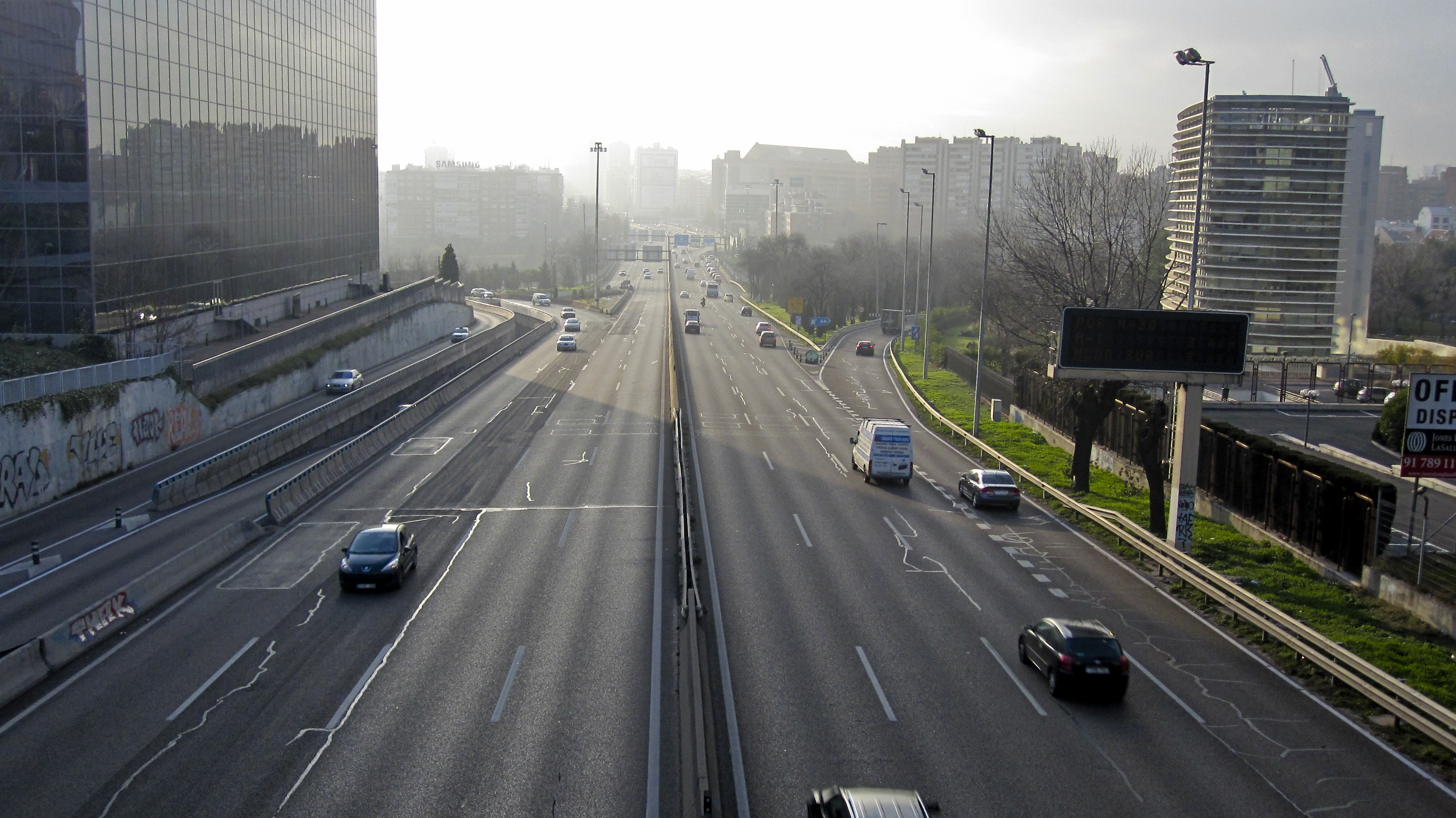 Avenida de América, Madrid, Spain. Seen from C/ Torrelaguna.